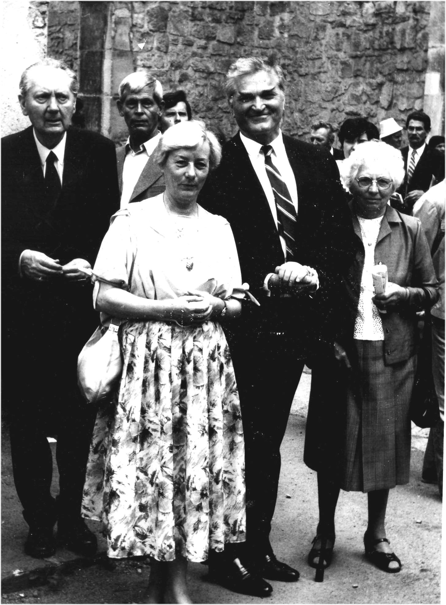 Arany Horváth (1932–) a Hungarian editor, reporter and writer from Transylvania (middle).